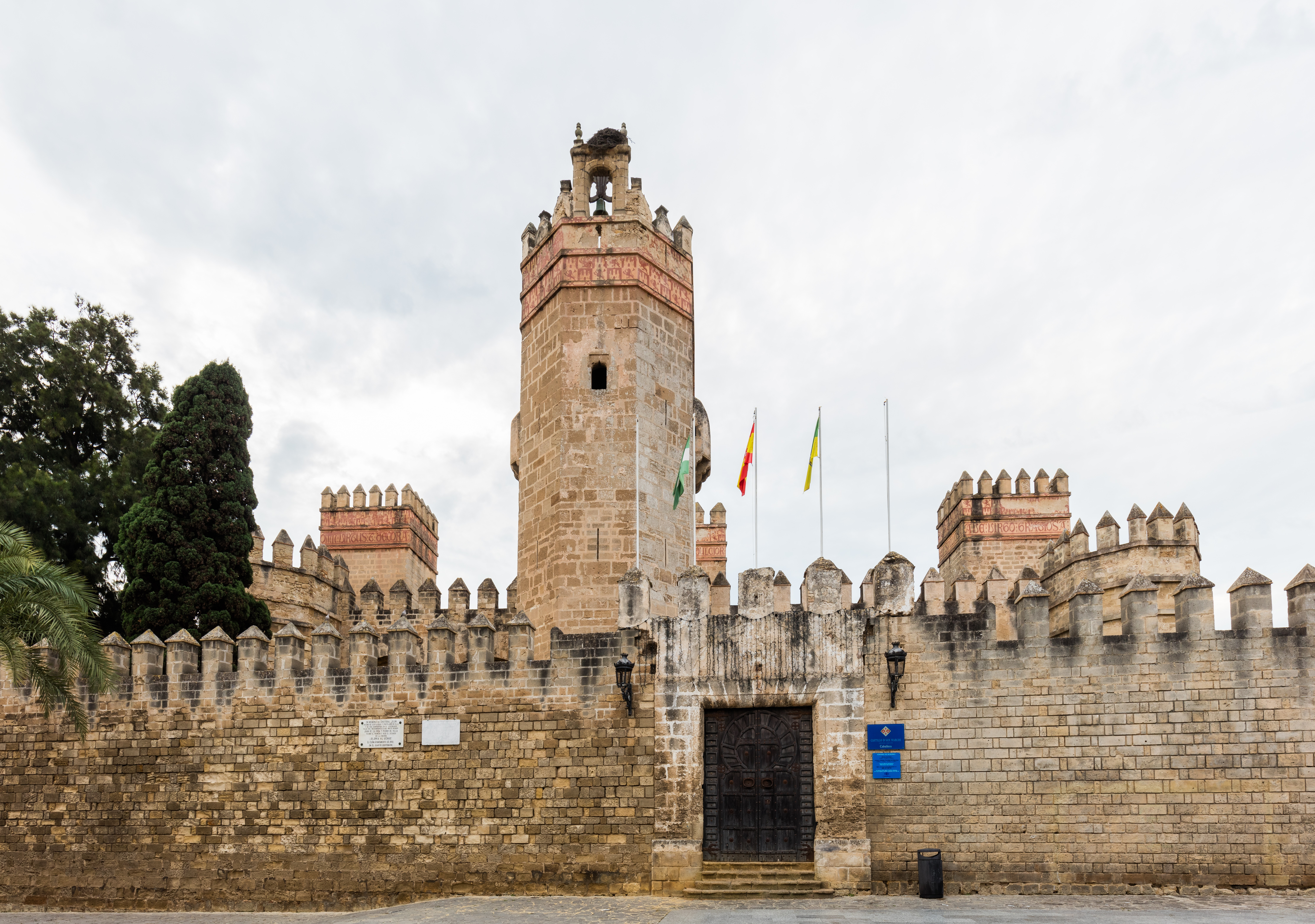 Castillo de San Marcos, El Puerto de Santa María, Cádiz, Spain